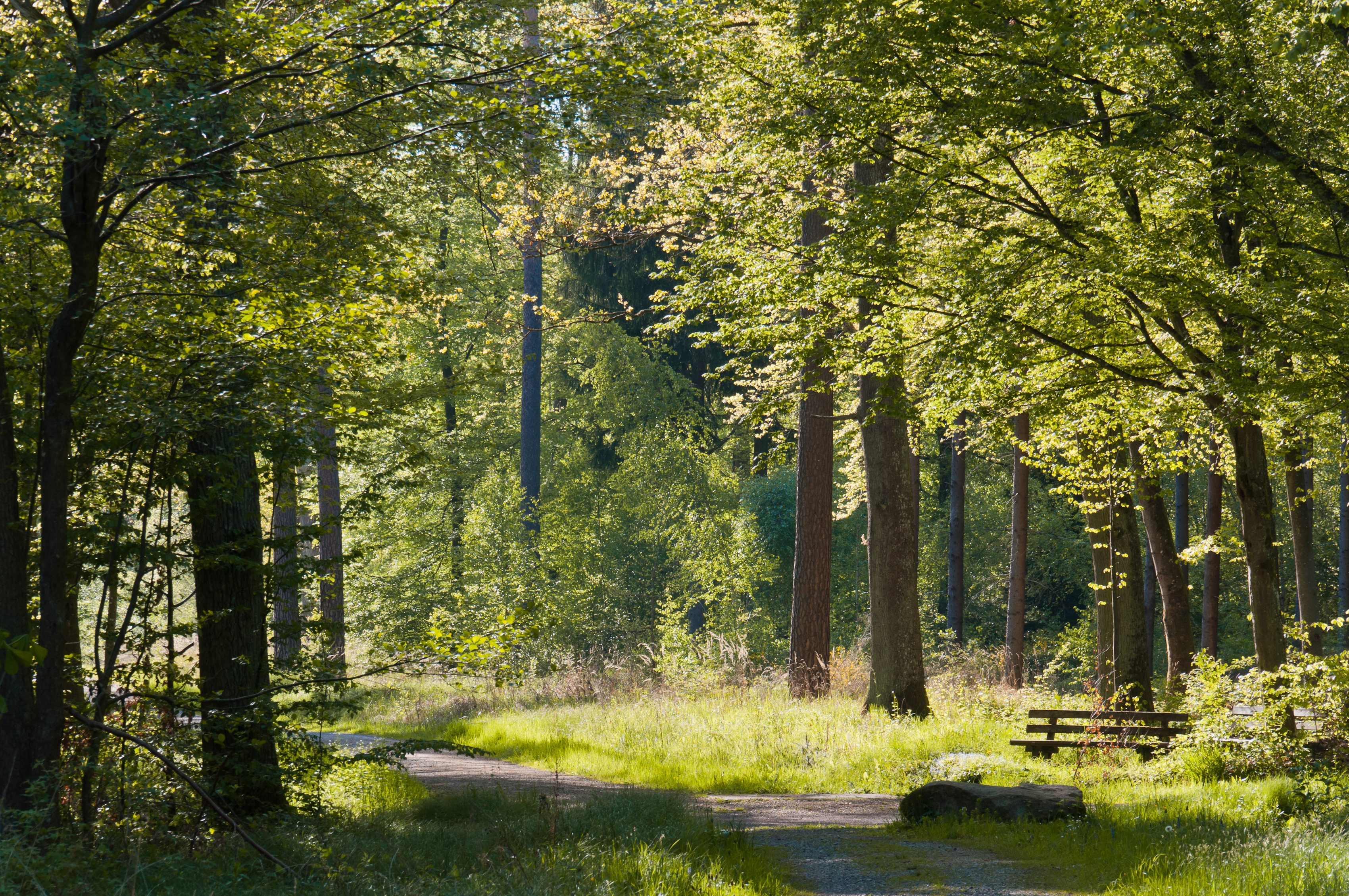 Forest track in the natural reserve "Rotwildpark", Stuttgart, Germany.